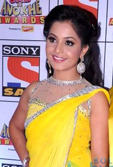 shubhangi Atre Instagram pics